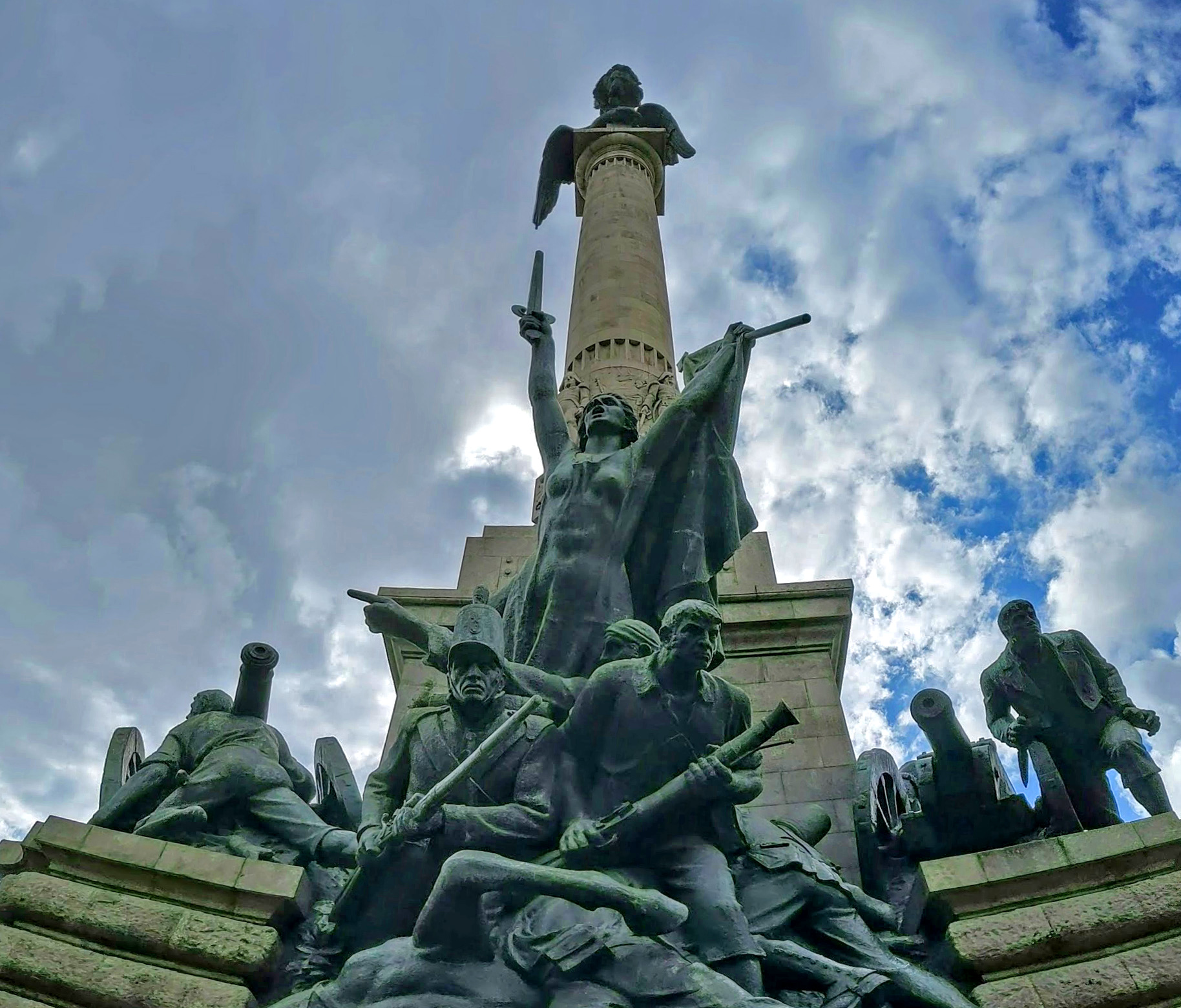 Monumento aos Heróis da Guerra Peninsular, at the Rotunda da Boavista, or Praça de Mouzinho de Albuquerque, Porto, Portugal